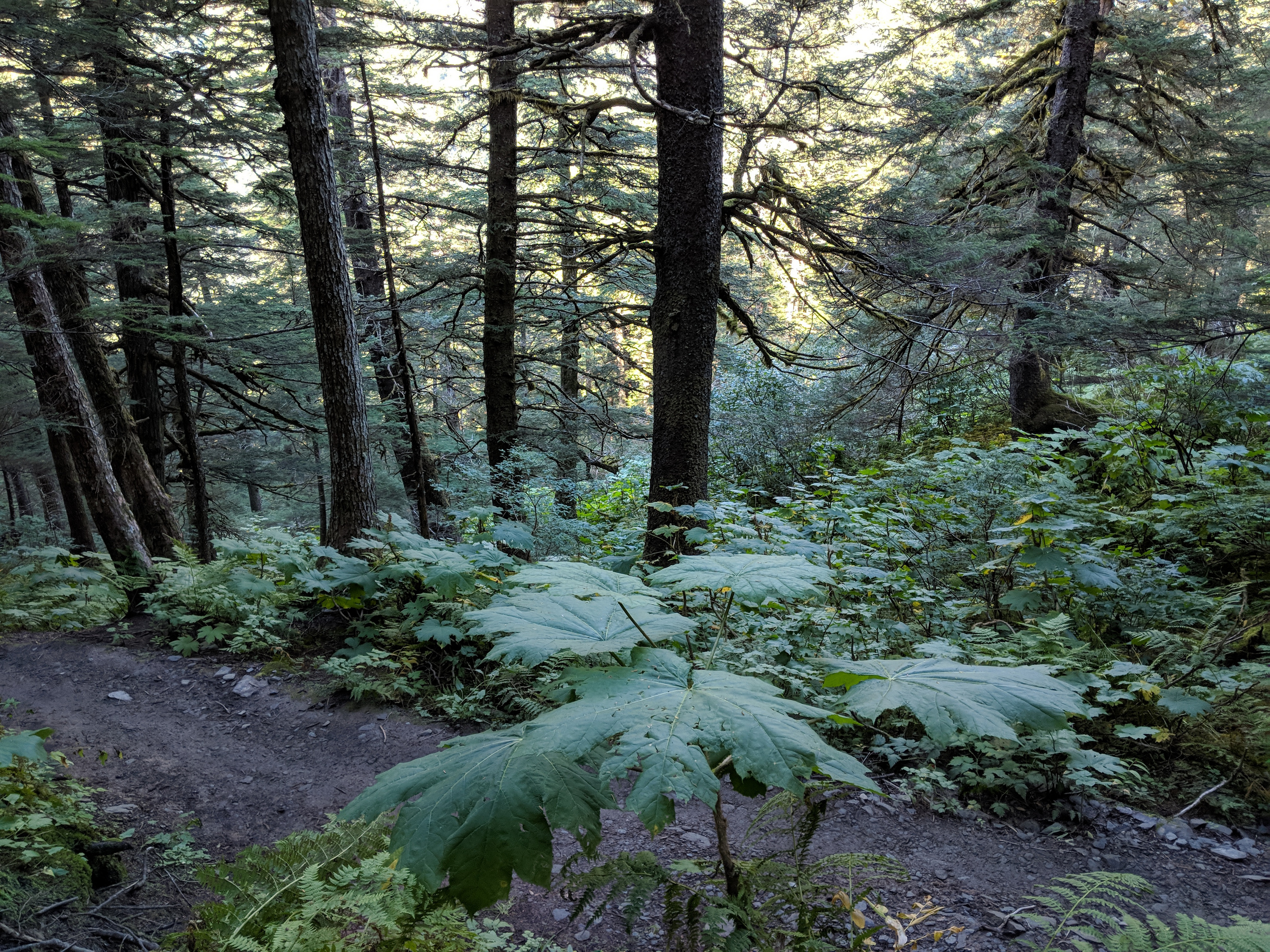 Devil's Club in its habitat, Mr. Roberts, Juneau, AK